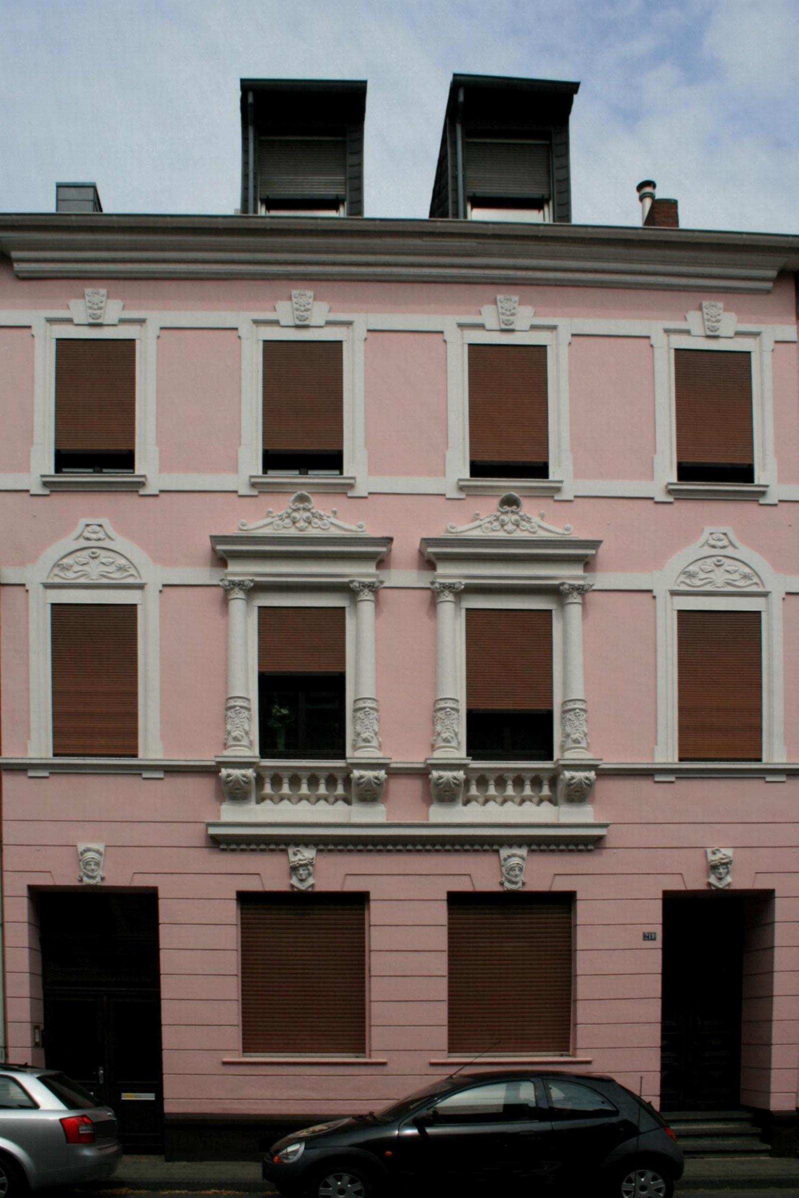 Cultural heritage monument No. M 001 in Mönchengladbach